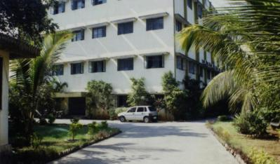 pic of the 3-storied old campus of PCoE.